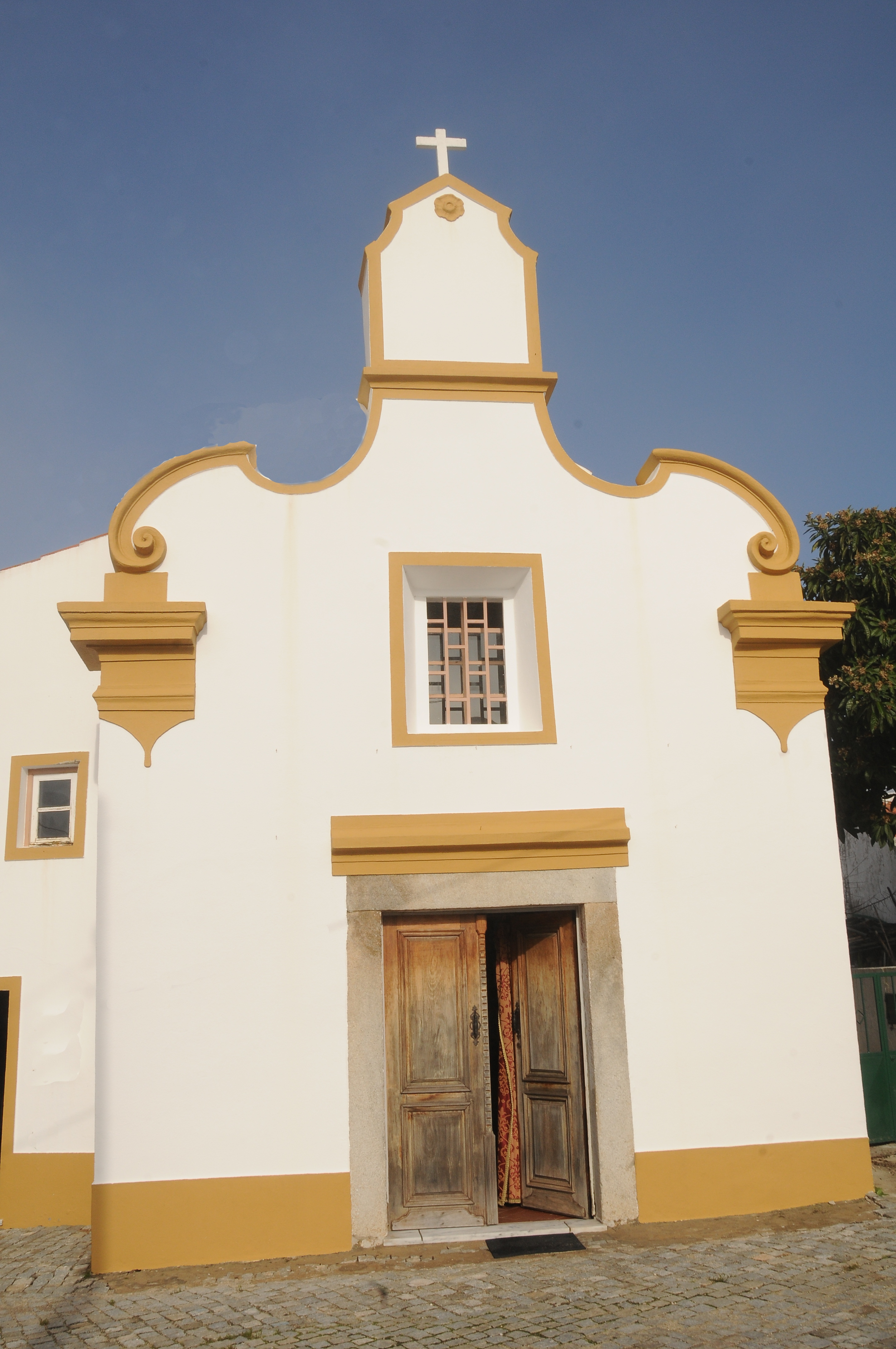 Saint Sebastian Church in Fortios, Portalegre, Portugal.